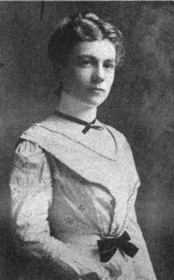 Gertrude Breslau Hunt in The Socialist Spirit, Sept. 1902.